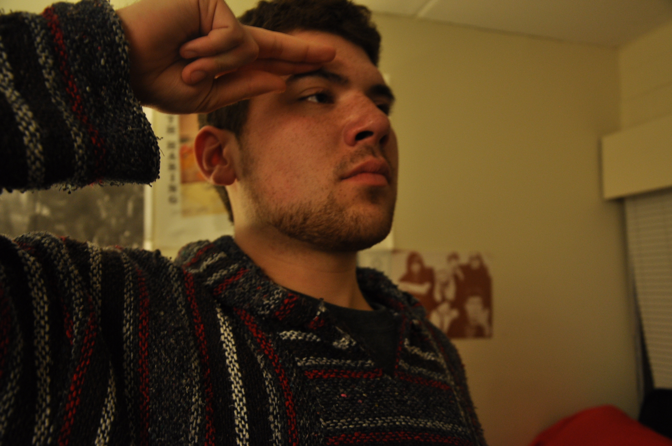 SUNY Purchase student demonstrating two finger salute.